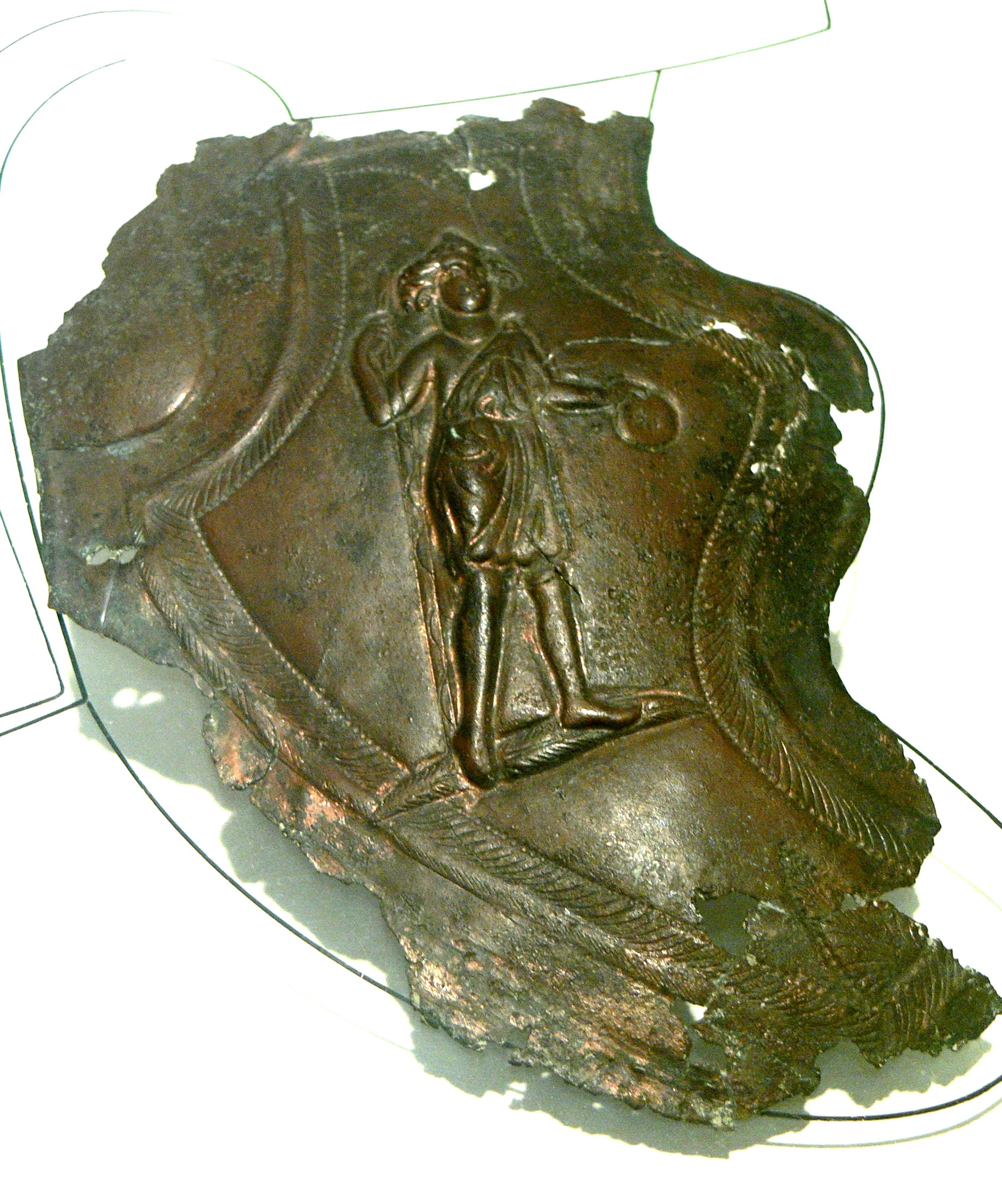 Archaeological museum Gunzenhausen ( Bavaria ). Part of a parade helmet with relief of a bacchant.